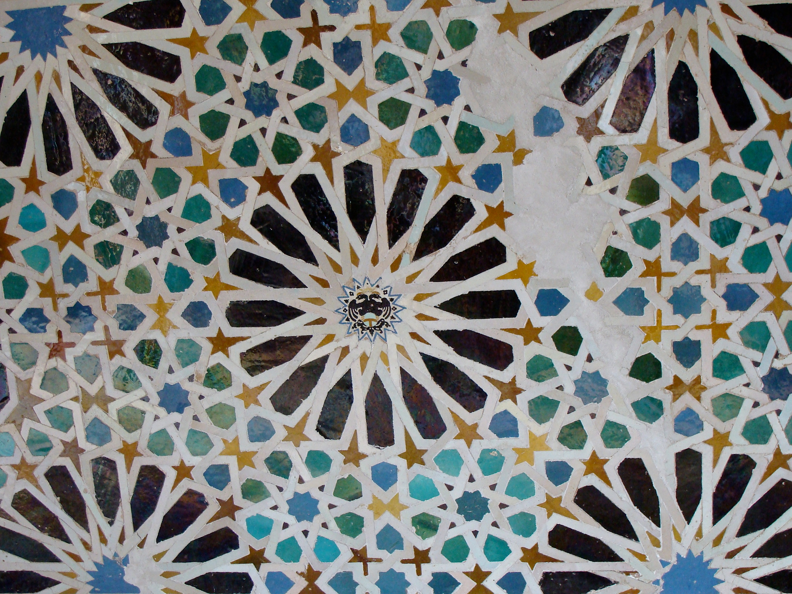 close up of nasride mosaïcs with symbol of Carlos V, Alhambra, Granada, Spain